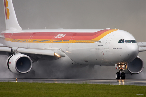 An Iberia Airbus 340-600 aircraft landing at Tocumen International Airport from Barajas.